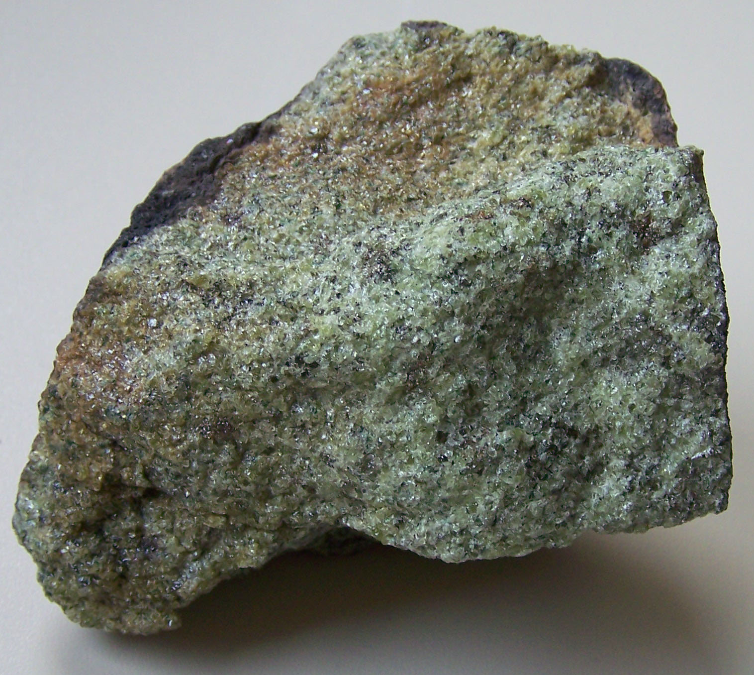 (xenolithic) lherzolite from Dreiser Weiher, Eifel, Germany. Collection of the Université de Neuchâtel